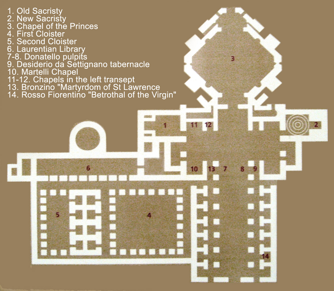 Plan of Basilica di San Lorenzo (Firenze). 1) Old Sacristy 2) New Sacristy 3) Chapel of the Princes 4) First Cloister 5) Second Cloister 6) Laurentian Library 7-8) Donatello pulpits 9) Desiderio da Settignano tabernacle 10) Martelli Chapel 11-12) Chapels in the left transept 13) Bronzino "Martyrdom of St Lawrence 14) Rosso Fiorentino "Betrothal of the Virgin"